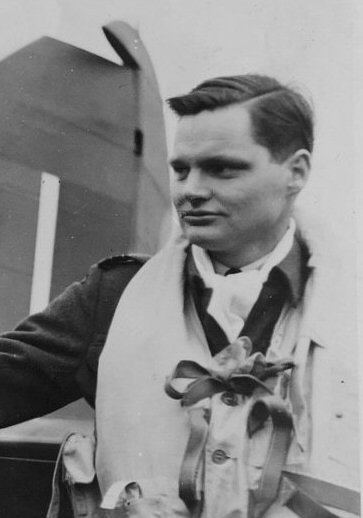 Flight Lieutenant Peter Wilson RCAF. Acting CO 438 Sqn RCAF 1945 Killed in action on 1 January 1945